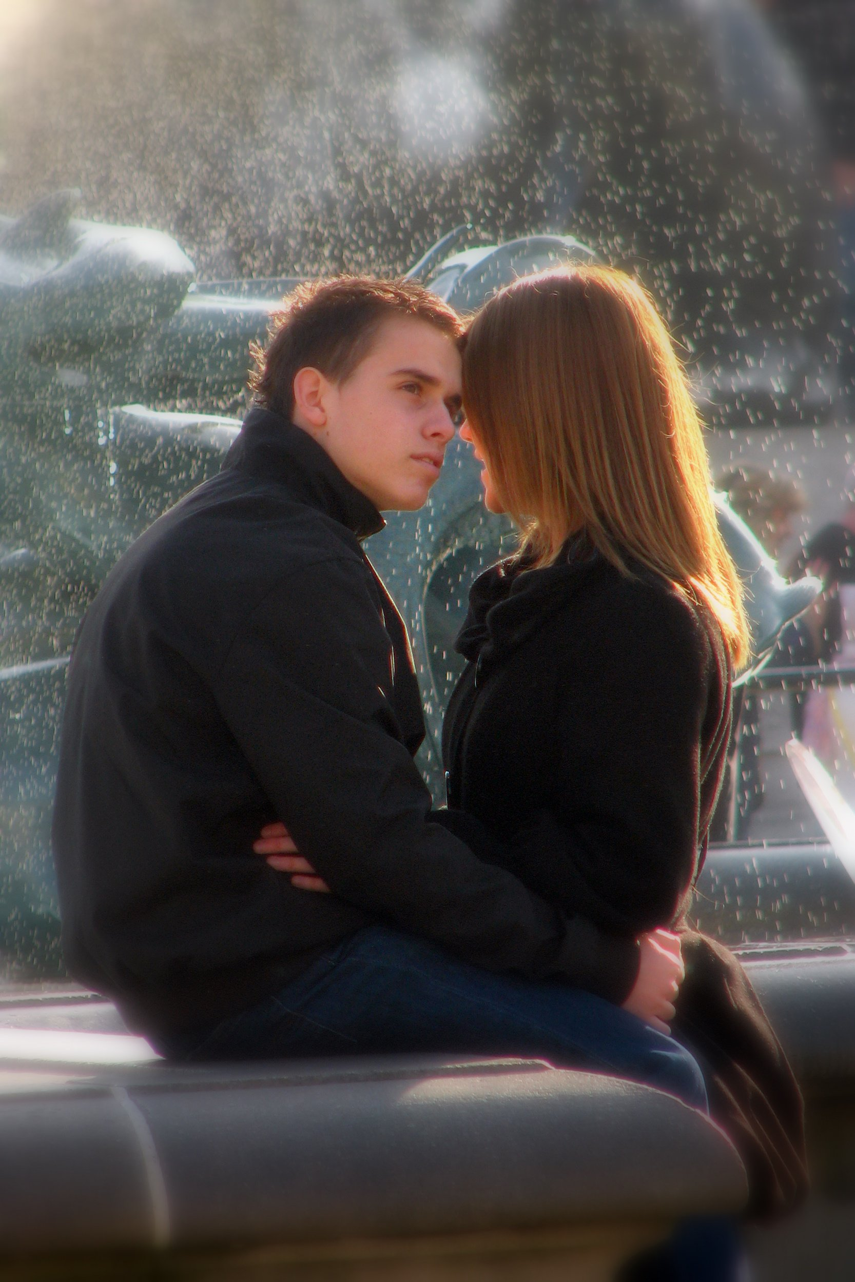 A young couple who look very much in love by the fountain in London's Trafalgar Square.